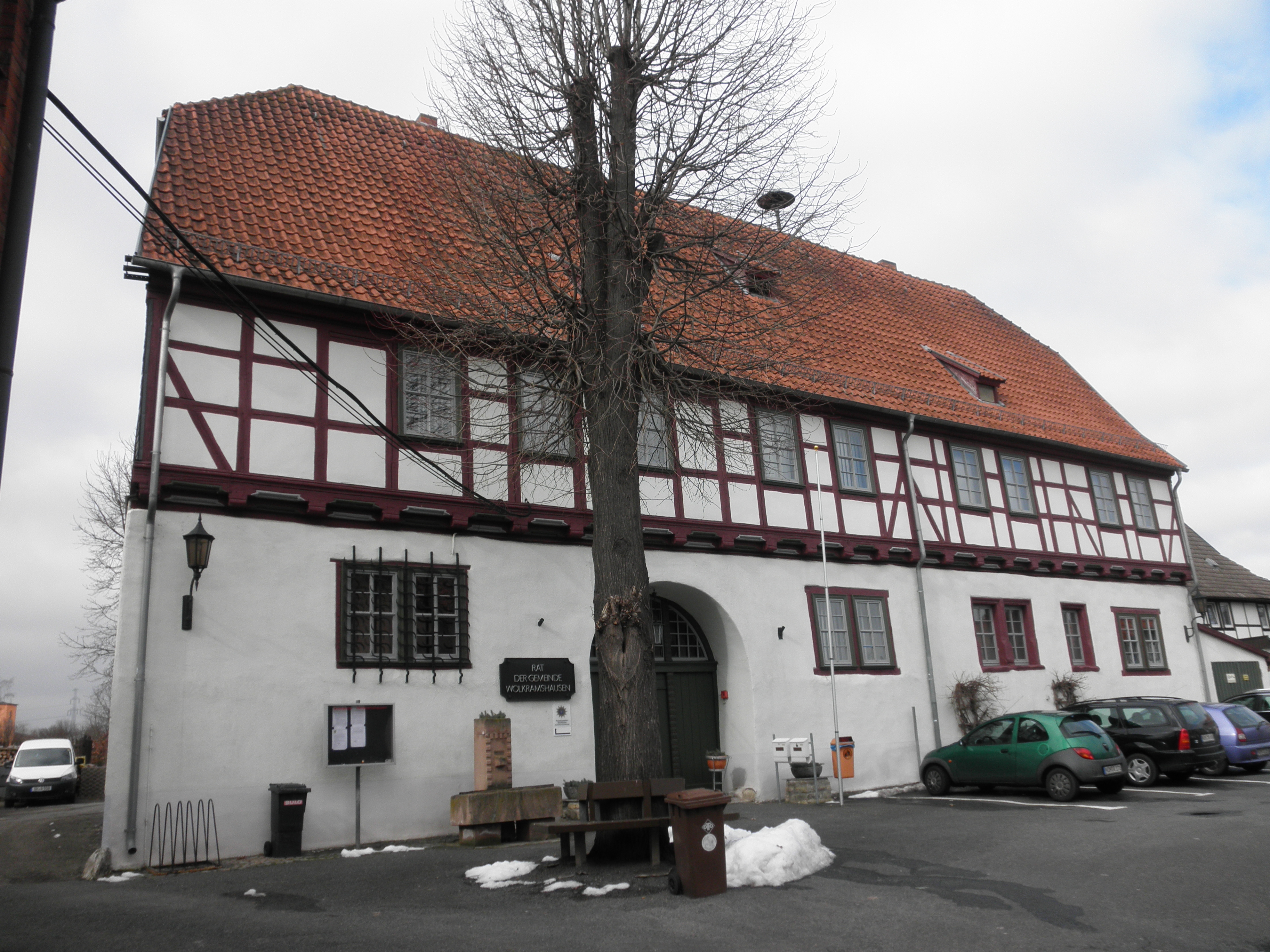 Building in Wolkramshausen in Thuringia